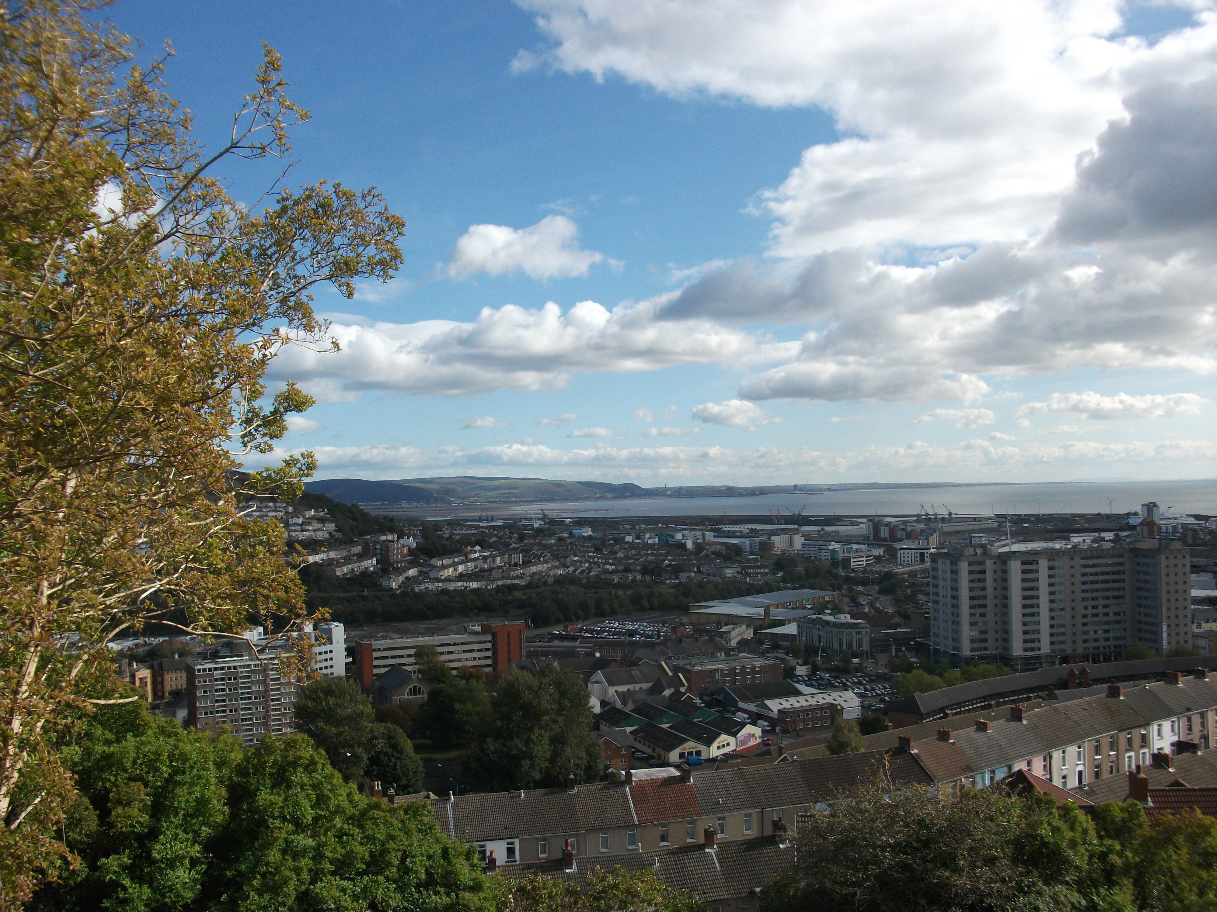 View from Mayhill towards the Swansea Bay area.